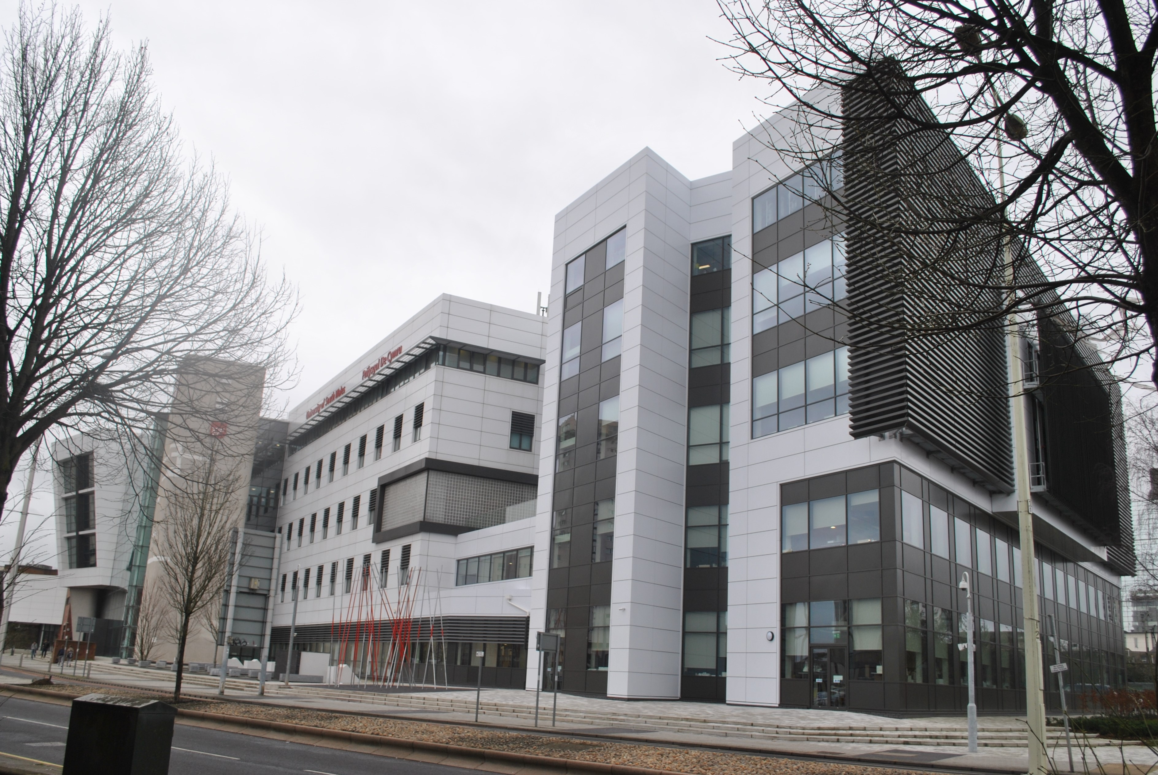 Atrium, Cardiff, Wales. Image taken in 2017.